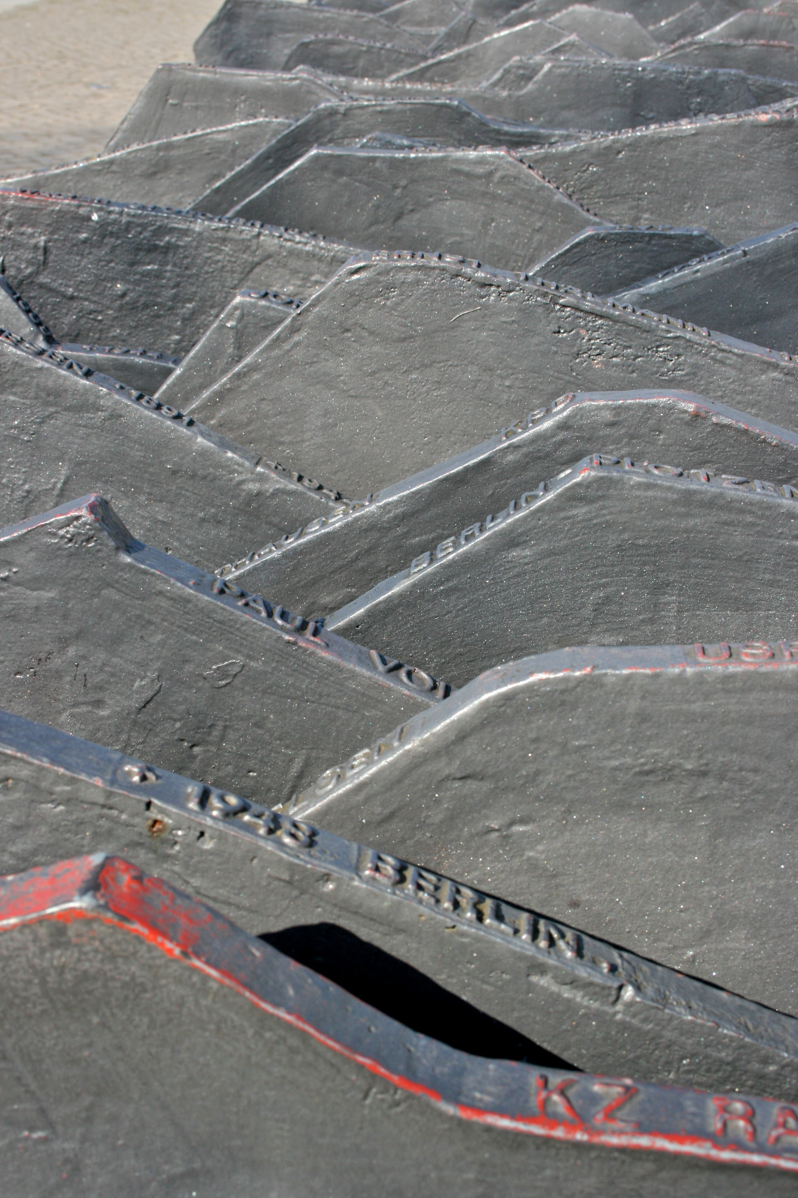 The memorial to the 96 Reichstag members of the opposition parties killed by the Nazis, outside the Reichstag Building in Berlin, Germany.